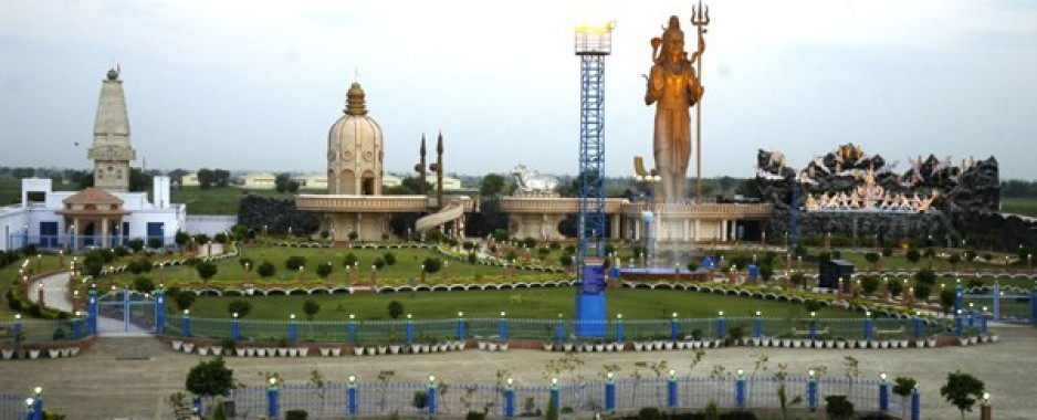 Religious place of sirsa